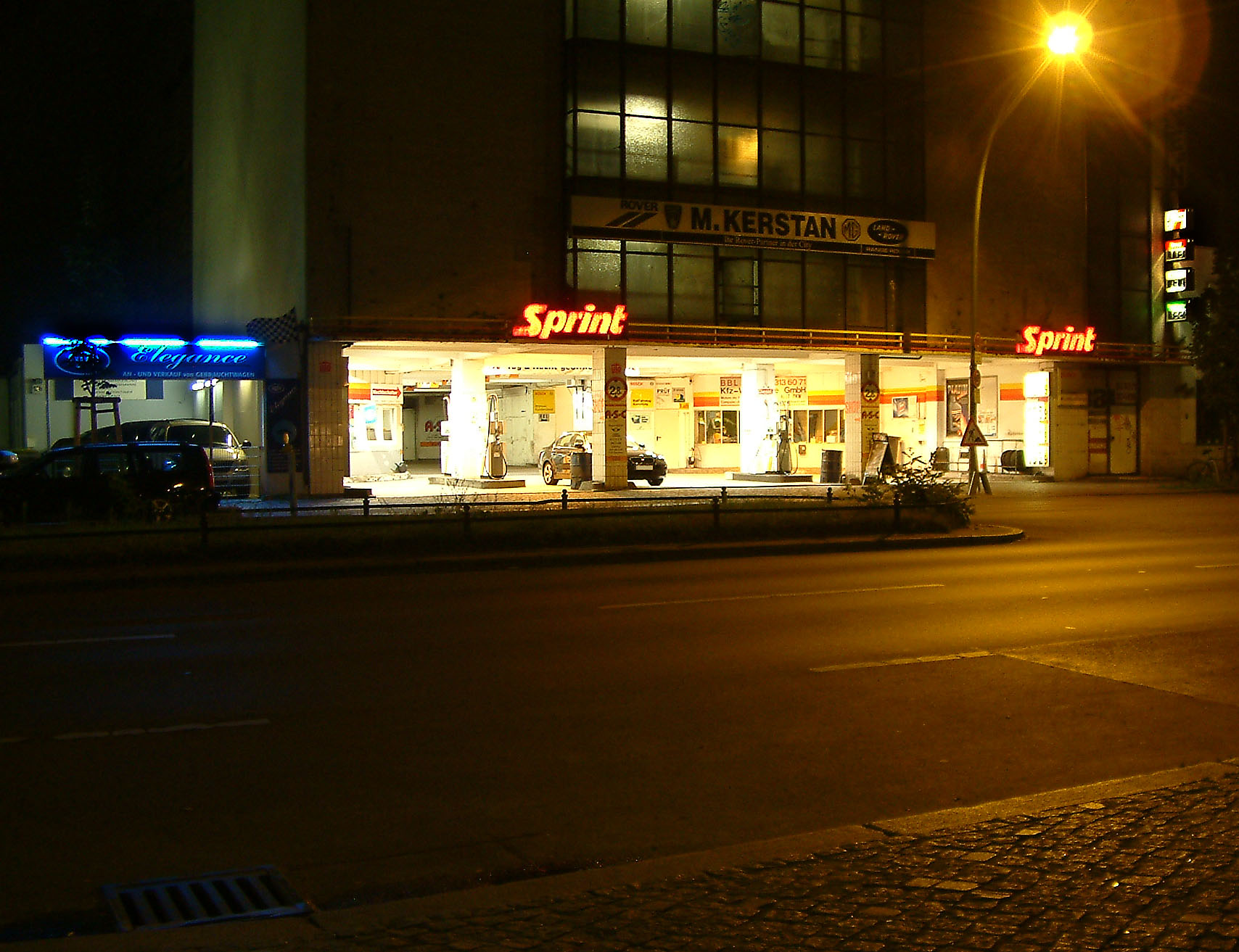 The petrol station in the „Kant-Garage“ in Berlin, one of the first parking garages in Germany (built 1930).